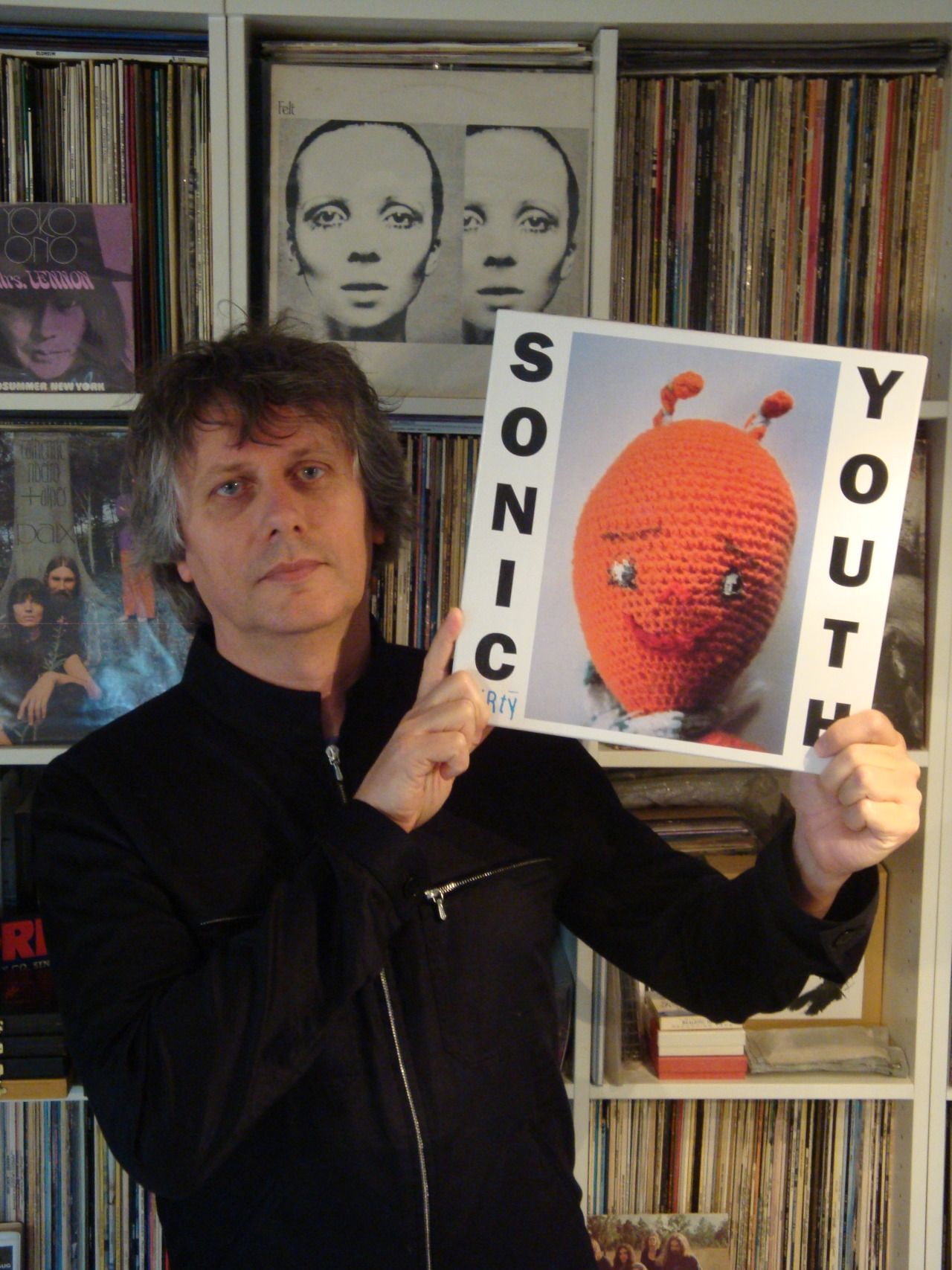 Philippe Robert (musical critic)